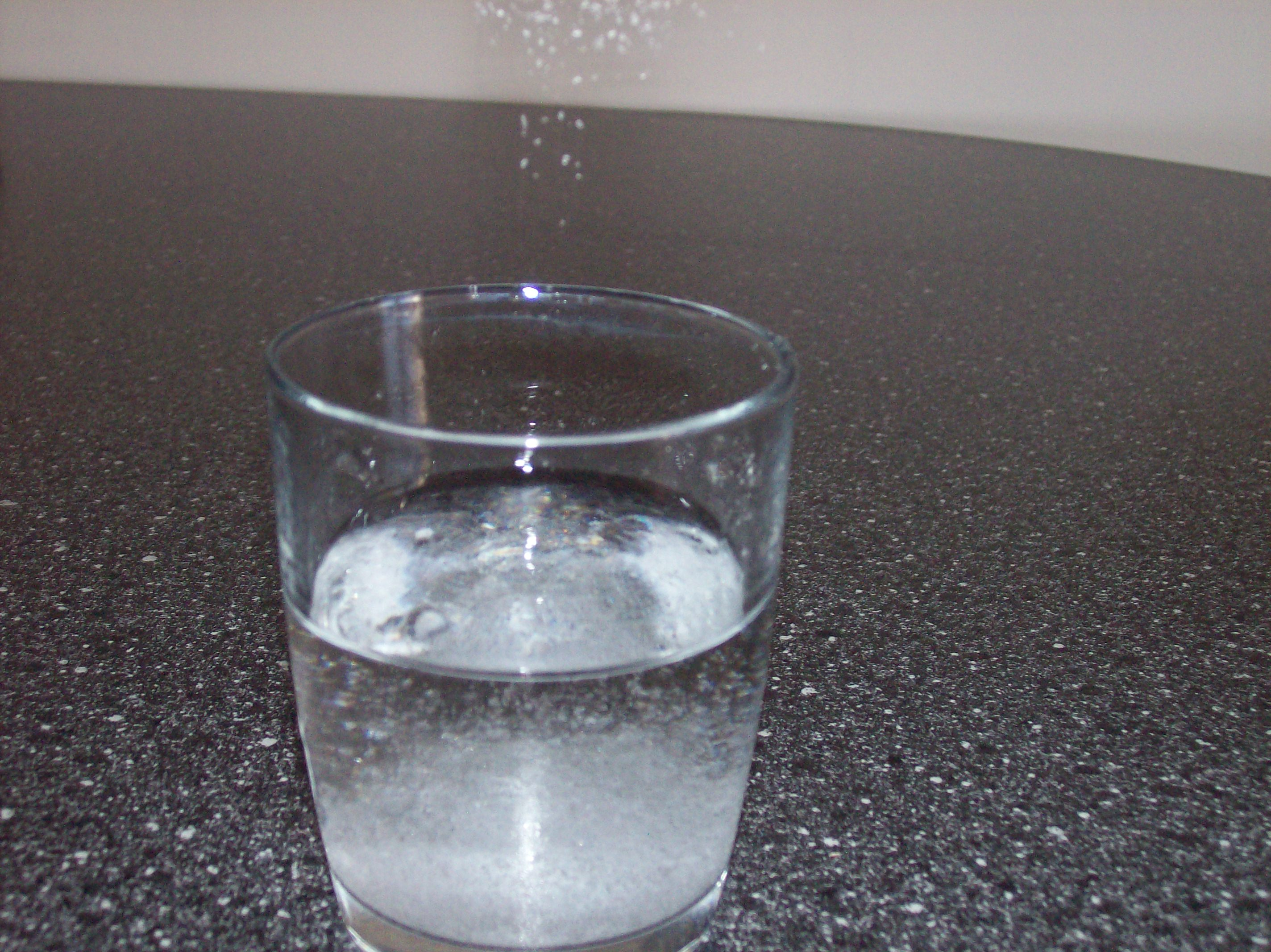 a solution of NaCl in water.